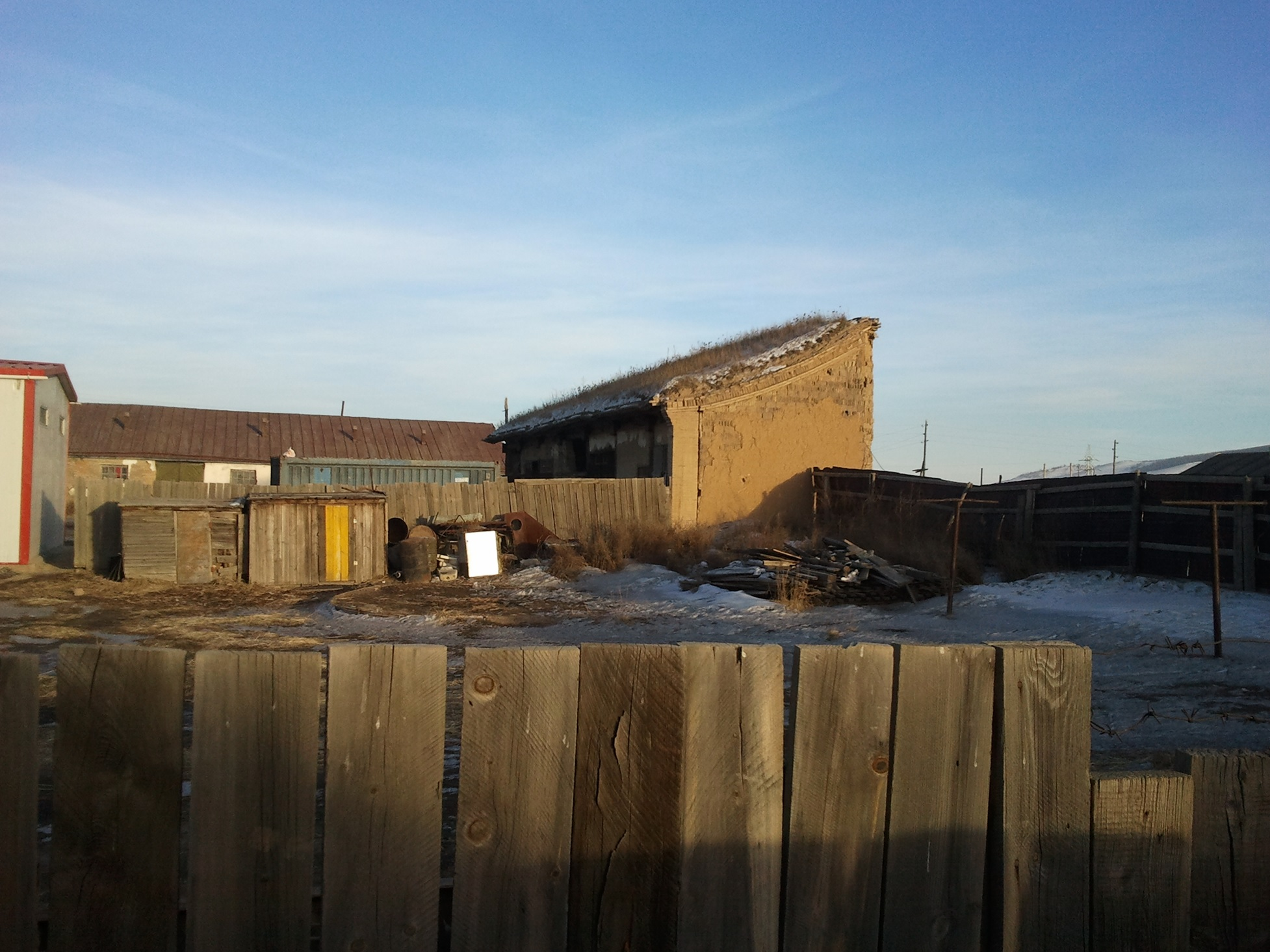 Old shop building in Amgalan (former central Maimaicheng) in Bayanzurkh District, Ulaanbaatar, Mongolia. Dates to 1778.